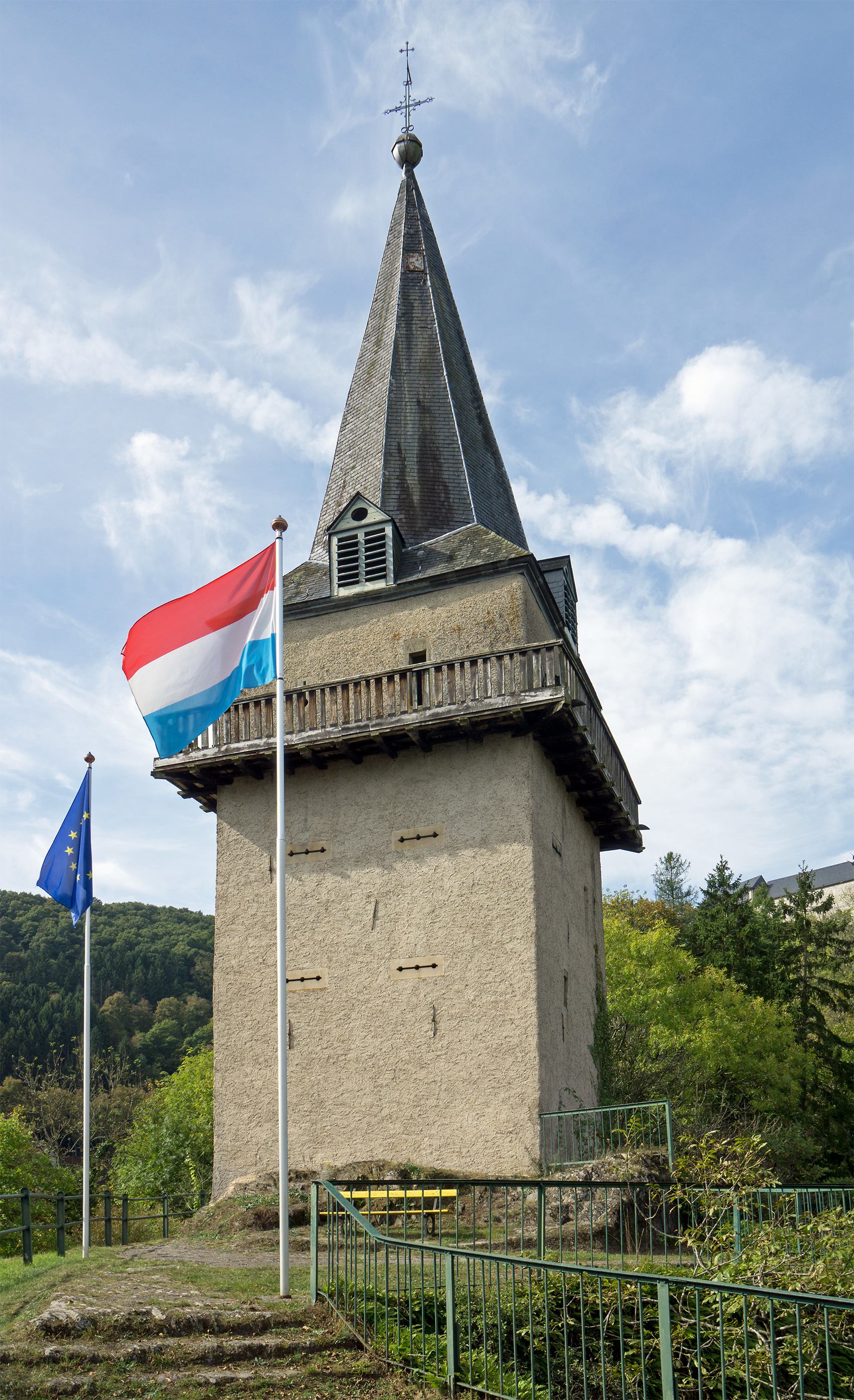 Hockels-tower in Vianden